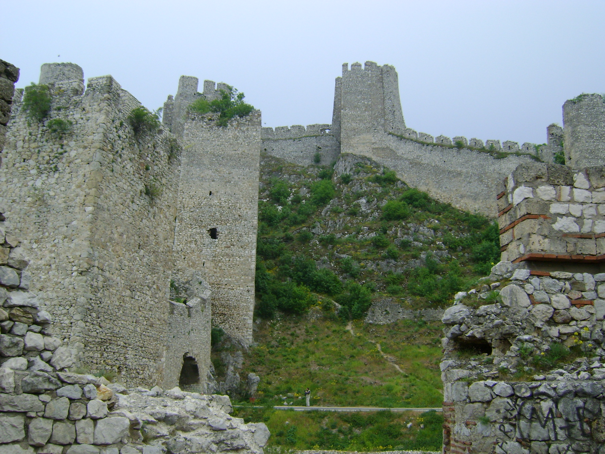 Inner city, Golubac